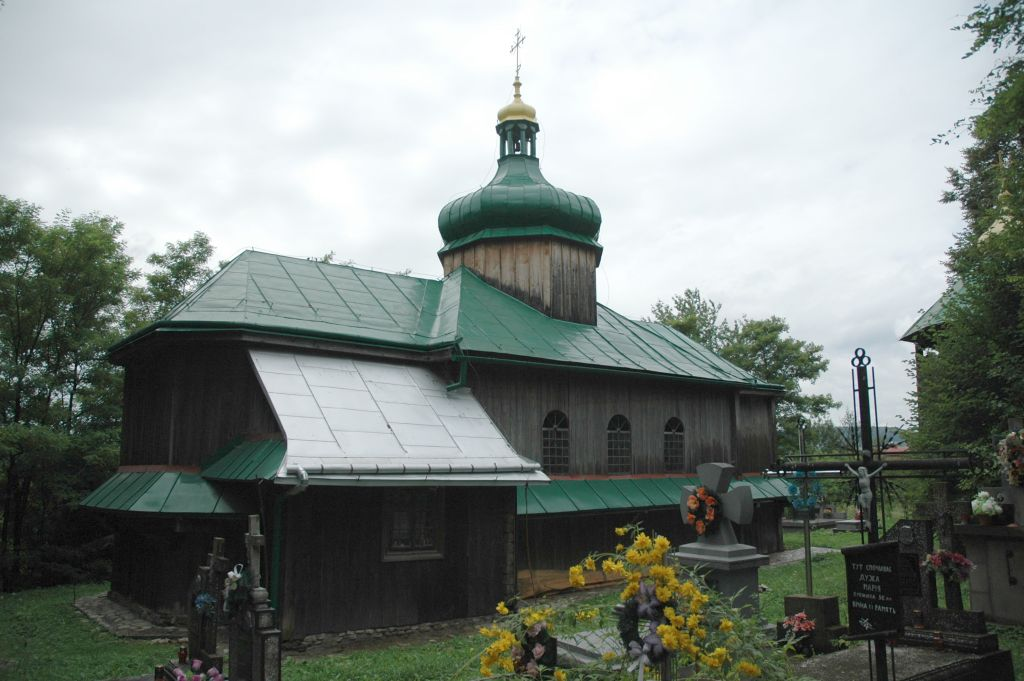 Orthodox church in Młodowice (former Greek Catholic church).